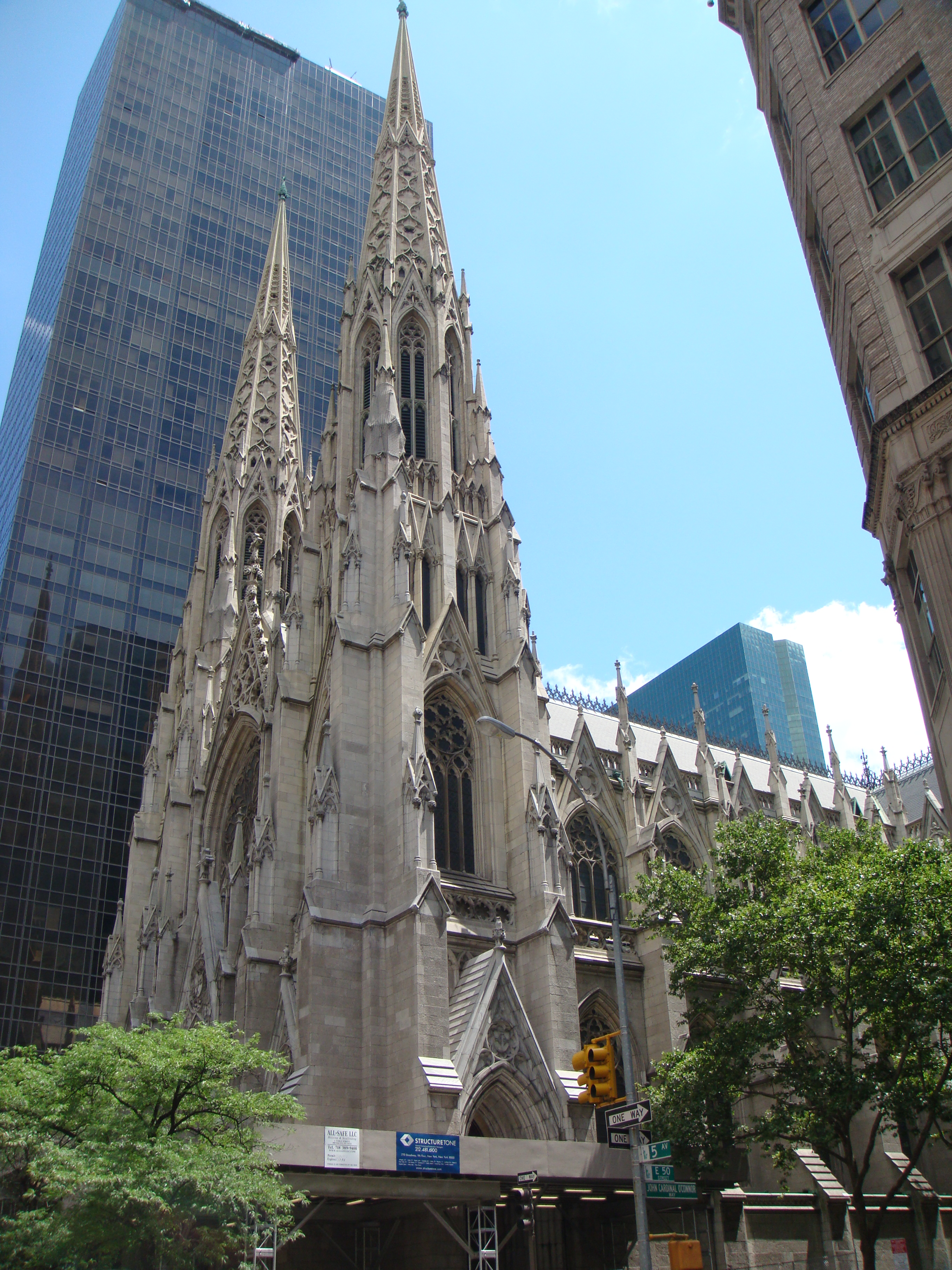 San Patrick's Cathedral